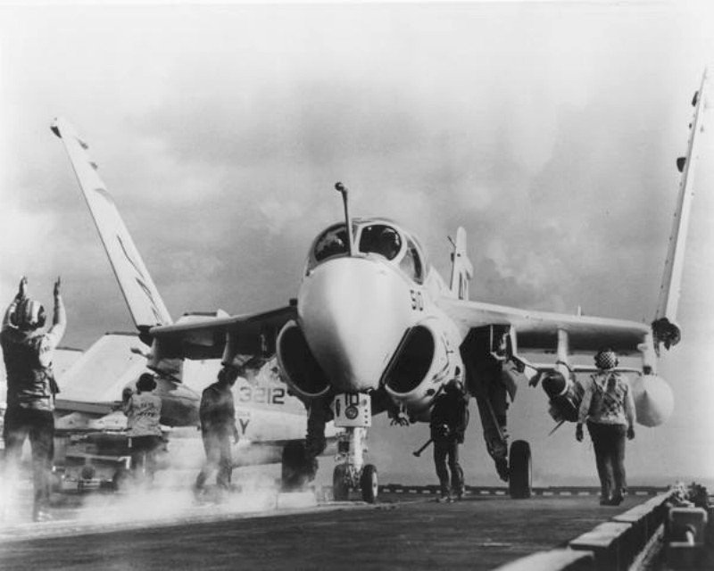 A U.S. Navy Grumman A-6B Intruder (BuNo. 149957) of Attack Squadron 75 (VA-75) "Sunday Punchers" on the aircraft carrier USS Saratoga (CVA-60) in the summer of 1971. VA-75 was assigned to Attack Carrier Air Wing Three (CVW-3) aboard the Saratoga fora a deployment to the Mediterranean Sea from 3 June to 31 October 1971. The first ten A-6Bs (BuNos 149949, 149957, and 151588 to 151595) were obtained by stripping off most of the attack systems of existing A-6As, and substituting them with specialized equipment that could detect radars from surface-to-air missiles. They were equipped with the AGM-78 Standard anti-radiation missile, visible on the left inboard pylon of the aircraft.